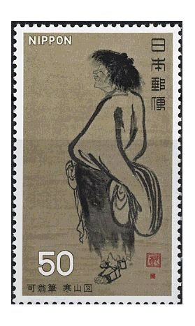 Portrait of Kanzan (Hanshan (紙本墨画寒山図, shihon bokuga kanzanzu). 50 yen stamp of the original hanging scroll, ink on paper. The original scroll has been designated as National Treasure of Japan in the category paintings.